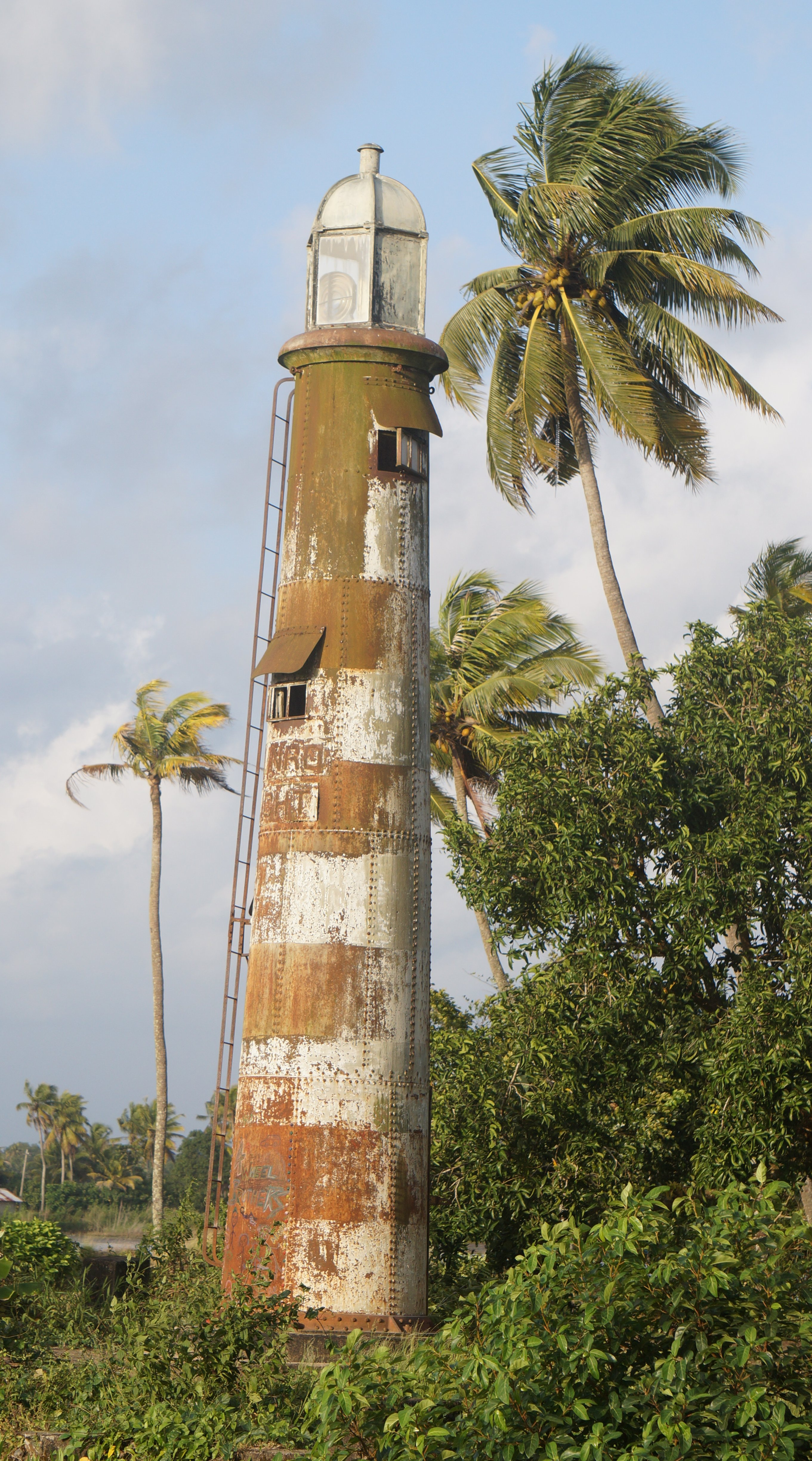 Munroe Light pallom Kottayam